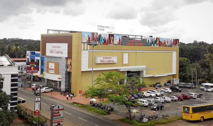 NH183A in Adoor